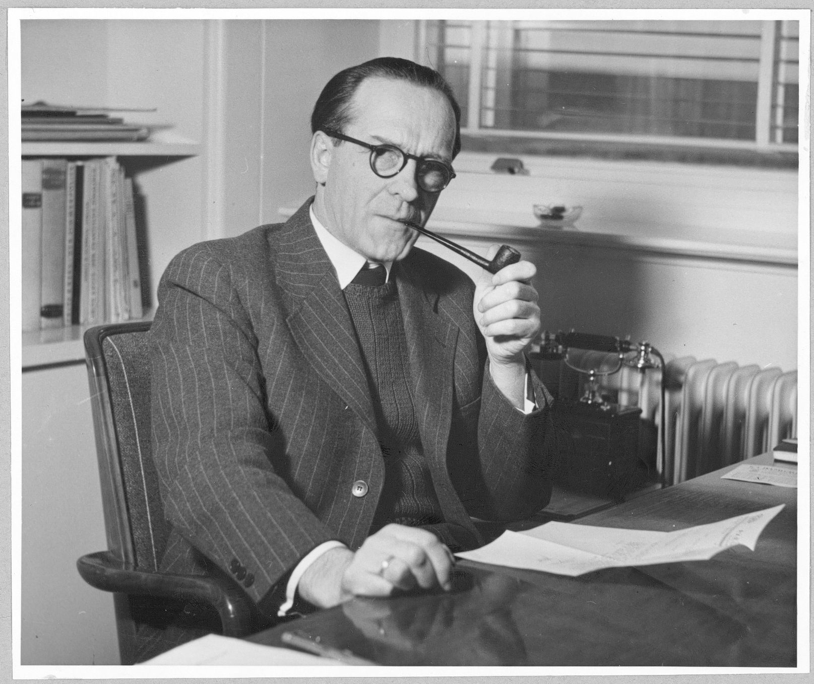 Portrait of Harald Salling-Mortensen (1902-1969), Danish architect